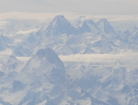 Huang Guan Shan from a plane. In the Background K2, Broad Peak and the Gasherbrums